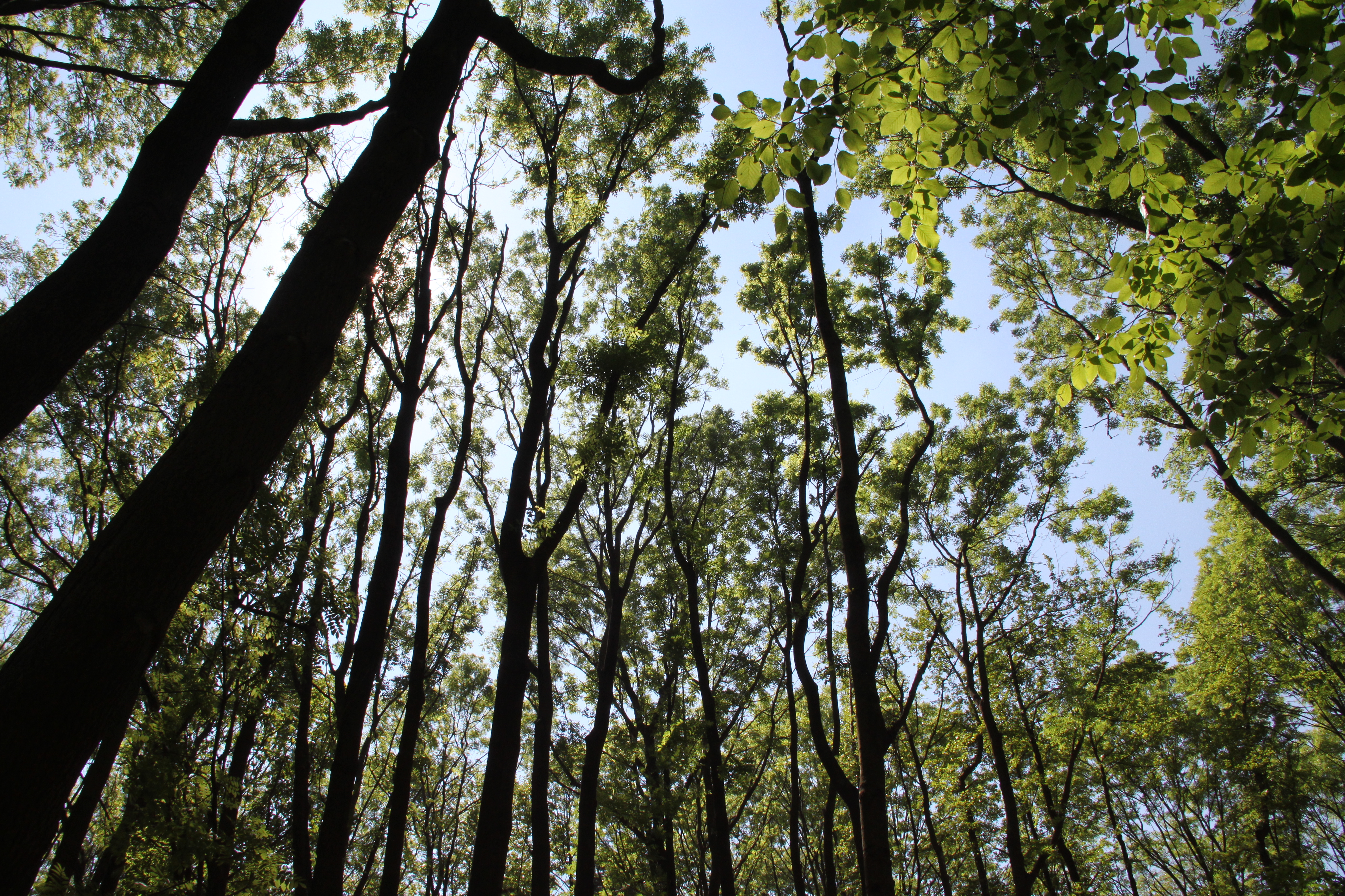 Fraxinus excelsior forest, Ojców National Park, Poland.